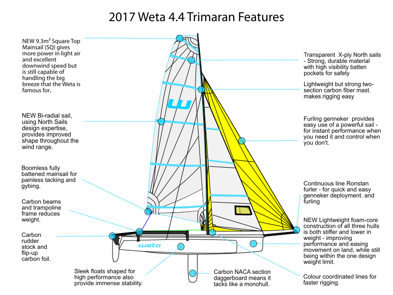 The 2017 Weta with new Square Top 9.3SqM sail.